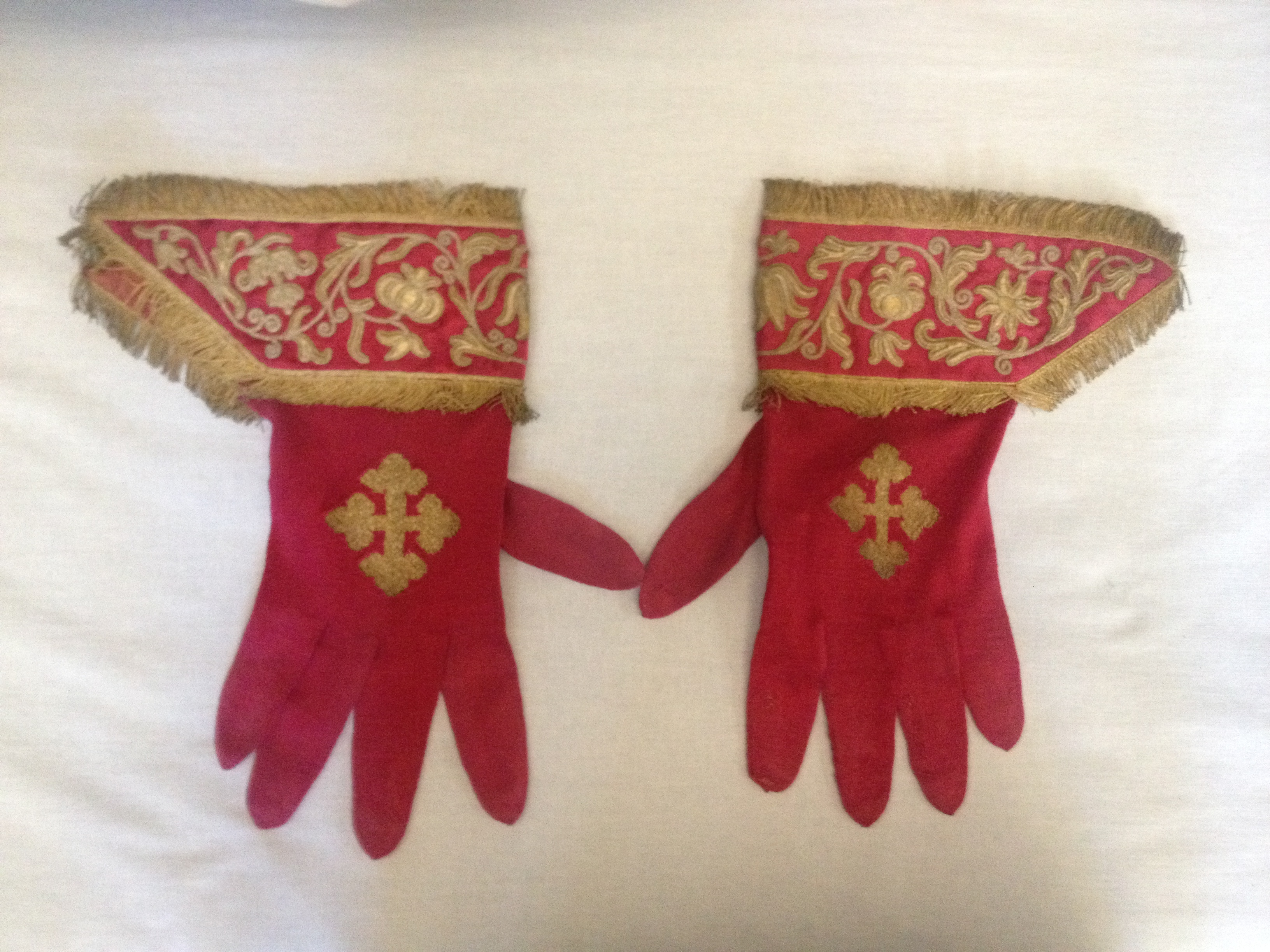 Red pontifical gloves from St. Stephen's cathedral in Litomerice (Czech).